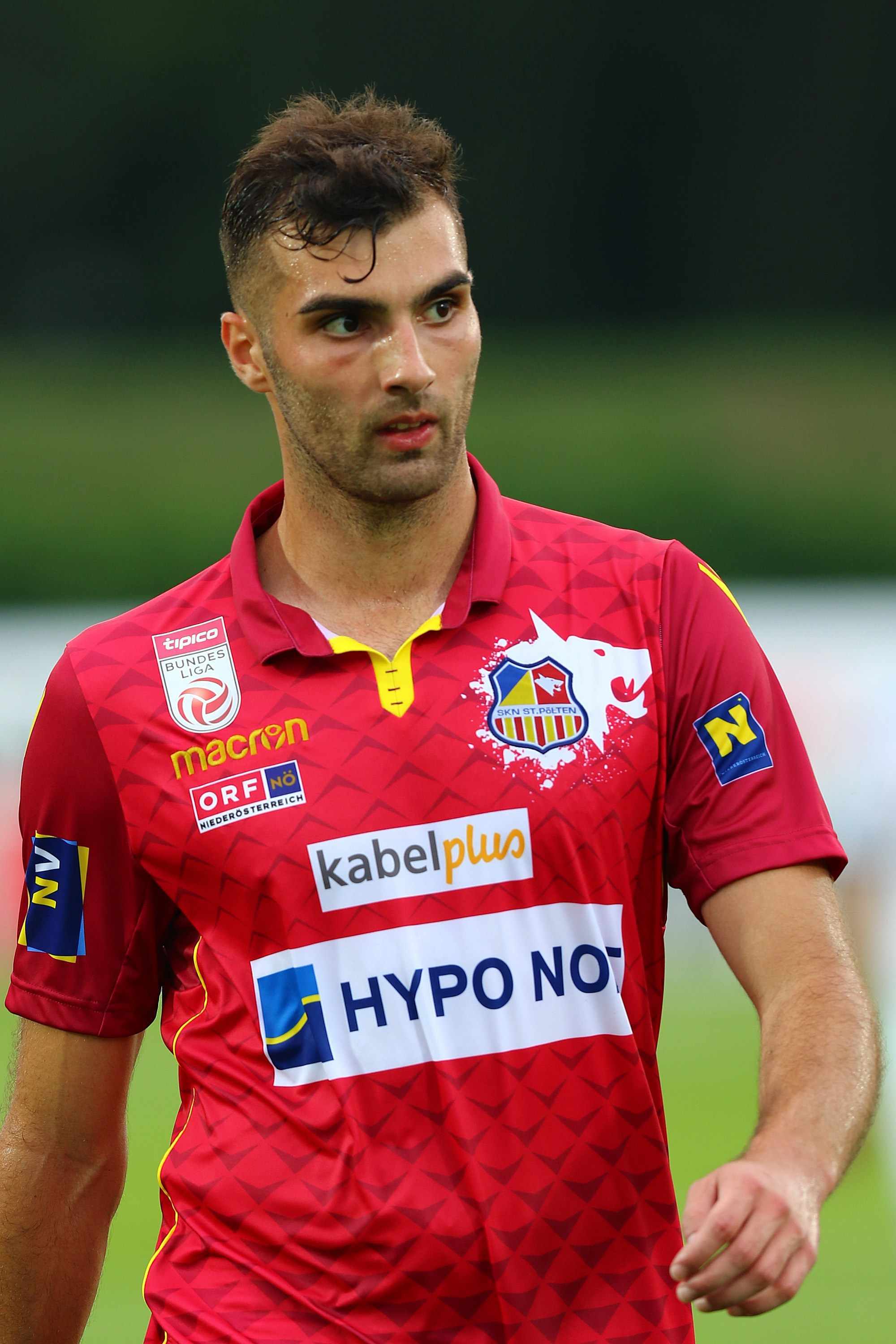 Football qualification match for the Austrian Bundesliga - SC Wiener Neustadt (white shirts) vs. SK St. Pölten (red shirts) 0-2. – The photo shows Manuel Martic.